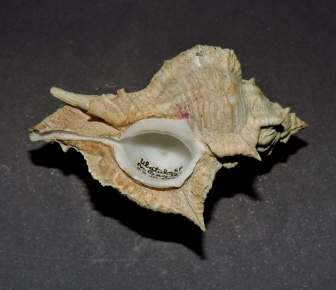 Photograph of gastropod specimen: Siratus senegalensis (Gmelin, 1791); the type species of Siratus genus. Collected in southeastern Brazil; Peres beach, Ubatuba, São Paulo state (22.III.1992).